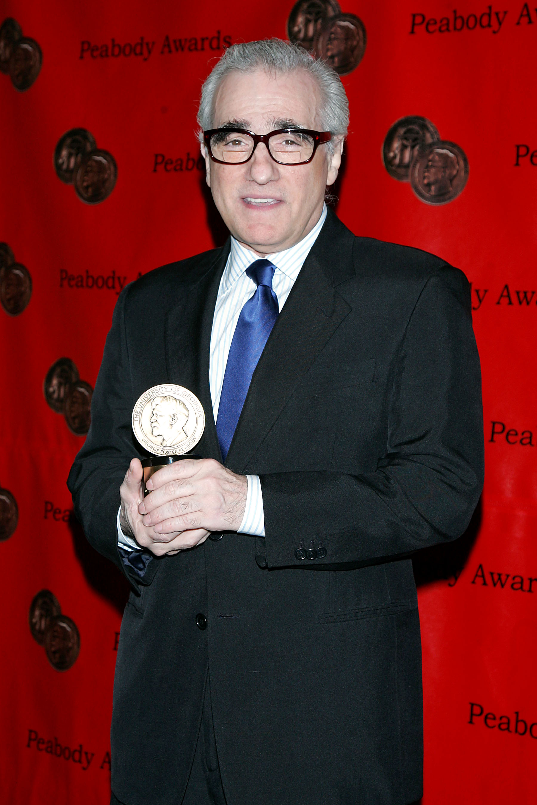 New York, NY - 6/5/2006 - The 65th Annual Peabody Awards honored 32 winners for the excellence in electronic media for 2005. The George Foster Peabody Awards recognizes distinguished achievement and meritorious public service by radio and television stations, networks,producing organizations and individuals. -PICTURED: Martin Scorsese -PHOTO by: Alex Oliveira/startraksphoto.com -AO175689